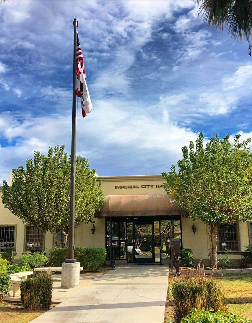 City Hall building for Imperial